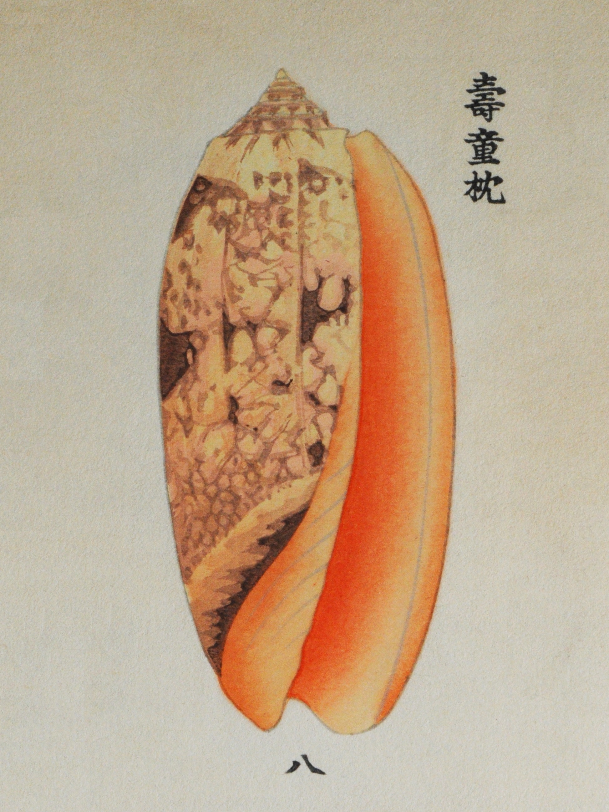 Woodcut print of Miniaceoliva miniacea.